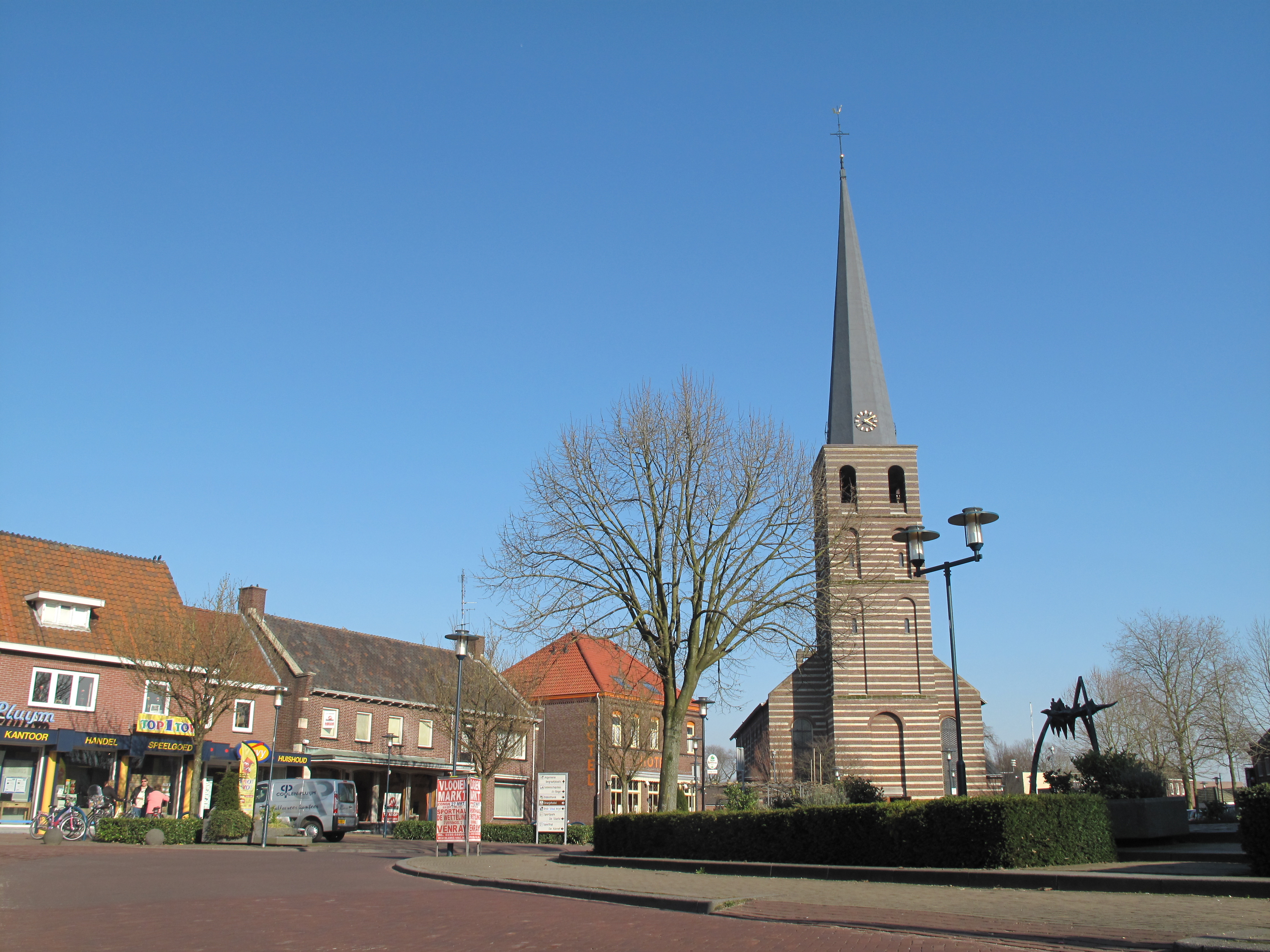 Meijel, church in the street